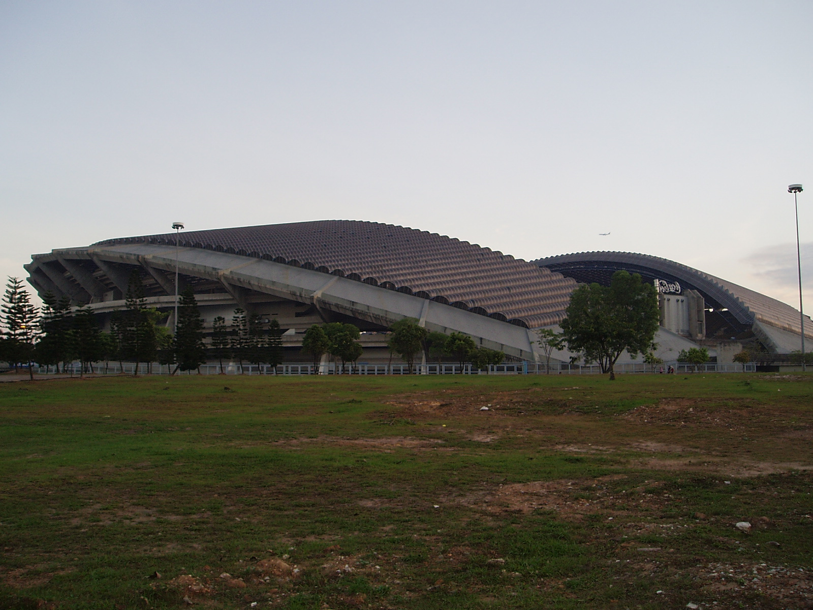 Shah Alam Stadium, Shah Alam, Selangor, Malaysia